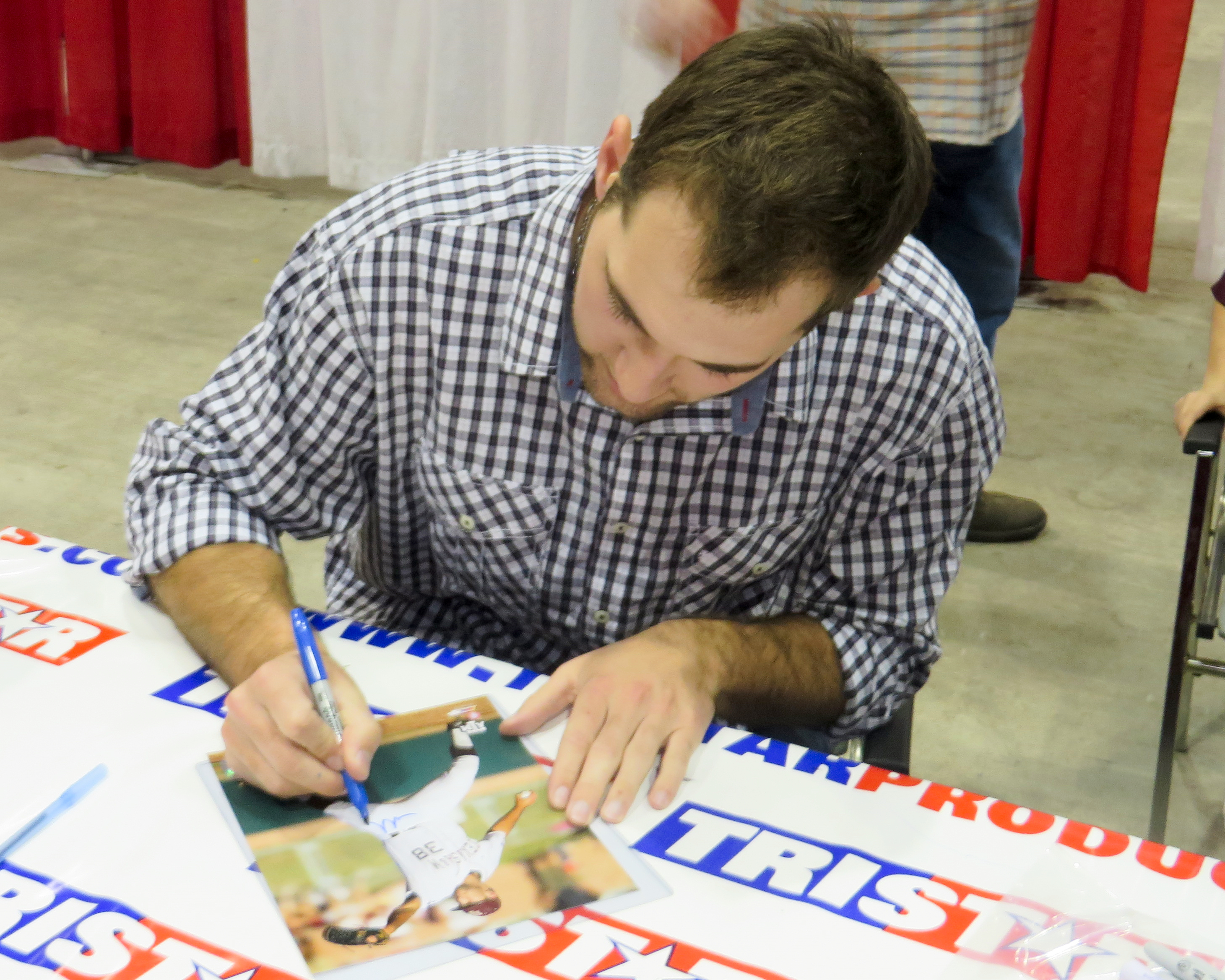 Major League Baseball pitcher Michael Wacha signs autographs at a Houston sports collectors show in January 2014.